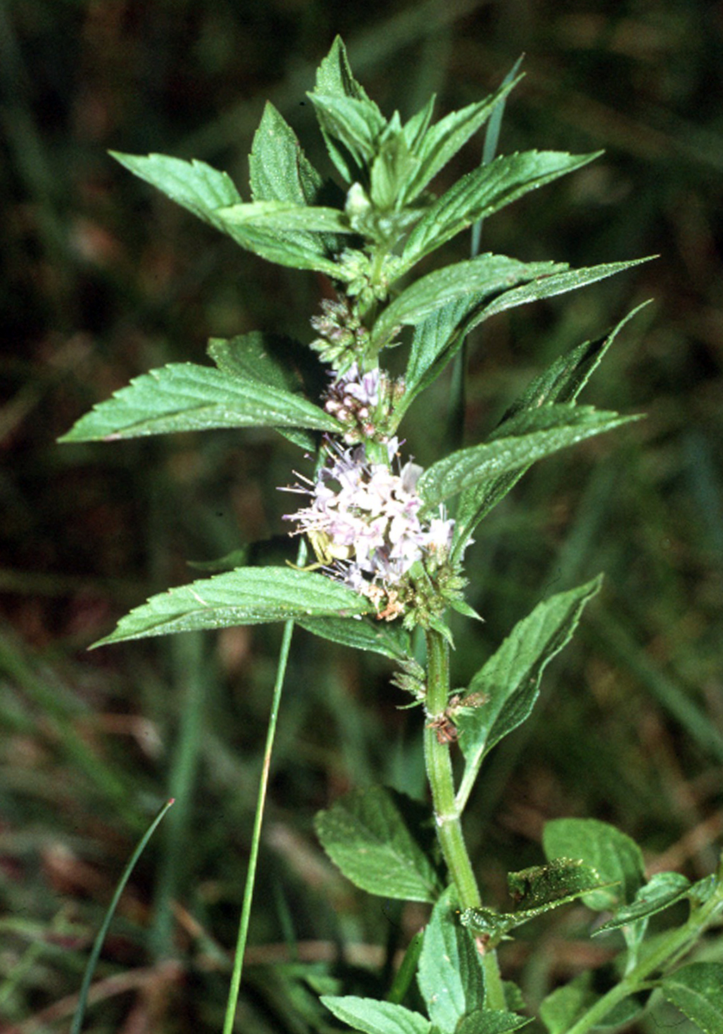 Mentha arvensis L. - wild mint